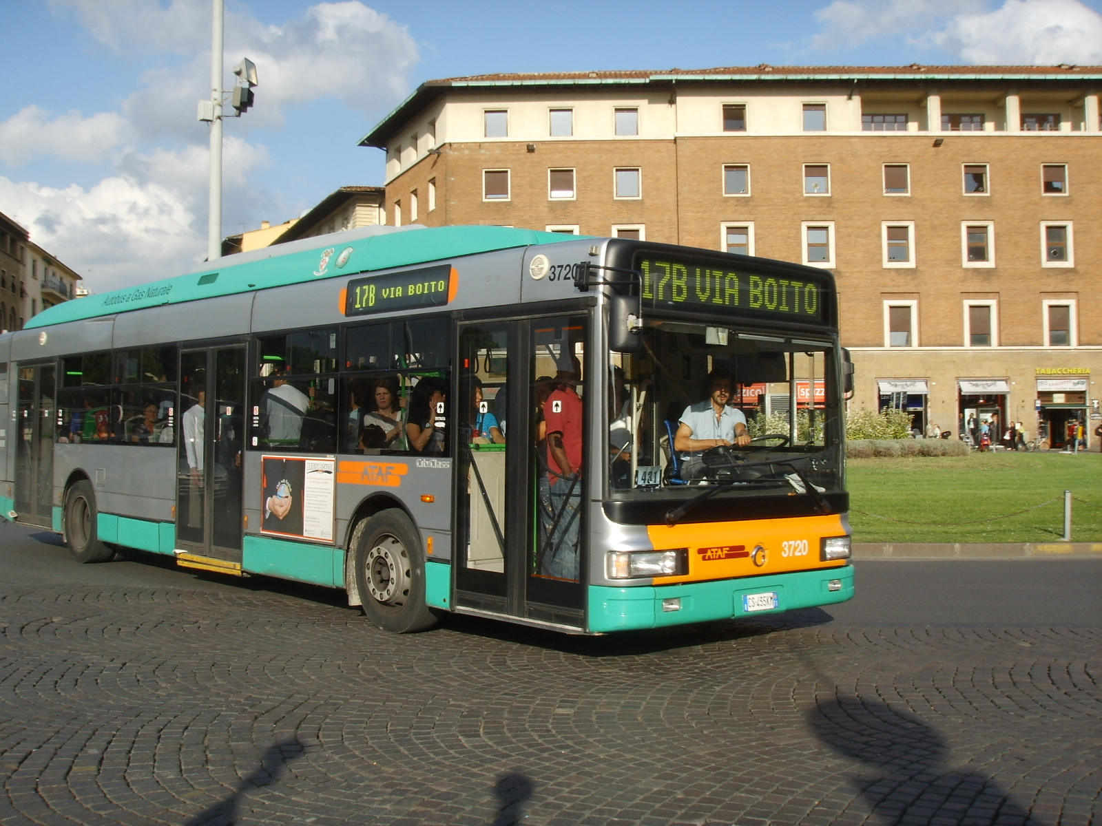 Irisbus 491E.12.24 CNG CityClass bus in Florence, Italy. Year built 2004.